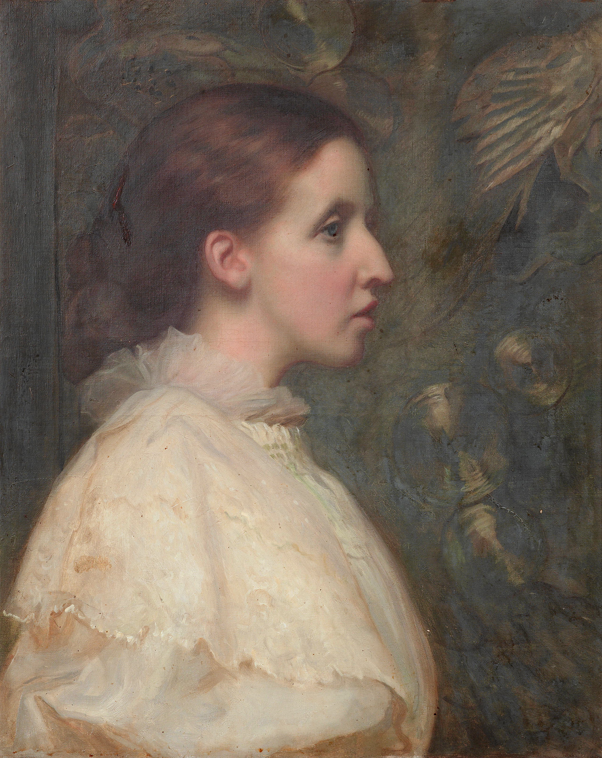 Maude Sarah Verney, wife of Frederick Verney oil on canvas 61.5 x 51.5 cm before 1896